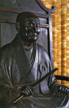 Zen Master Jakushitsu Genko